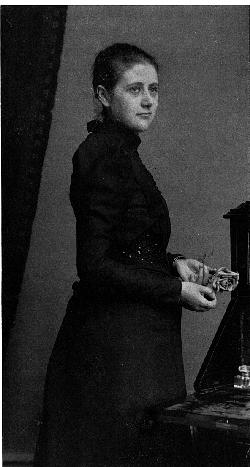 Beatrix Potter (1866-1943) as a young woman